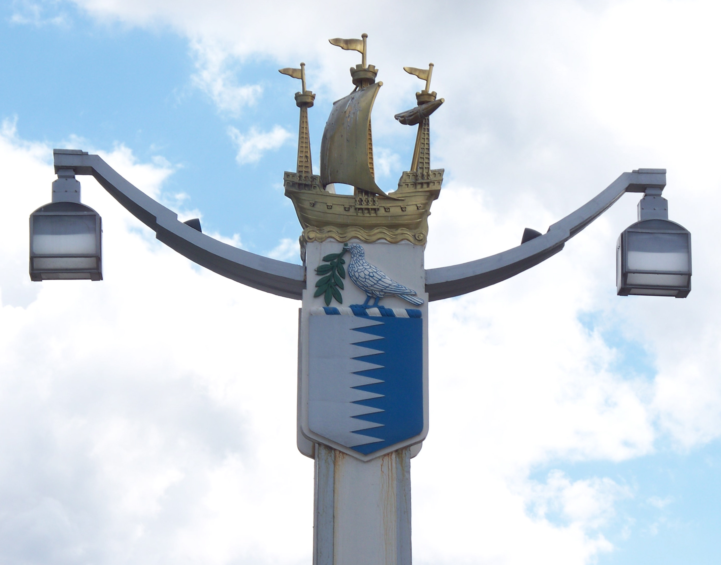 Crest of Battersea Council, Chelsea Bridge, London. Photograph taken in a public location in the UK of a building on permanent public display, and exempt from copyright under Section 62 of the Copyright Designs & Patents Act 1988 ("it is not an infringement of copyright to film, photograph, broadcast or make a graphic image of a building, sculpture, models for buildings or work of artistic craftsmanship if that work is permanently situated in a public place or in premises open to the public")